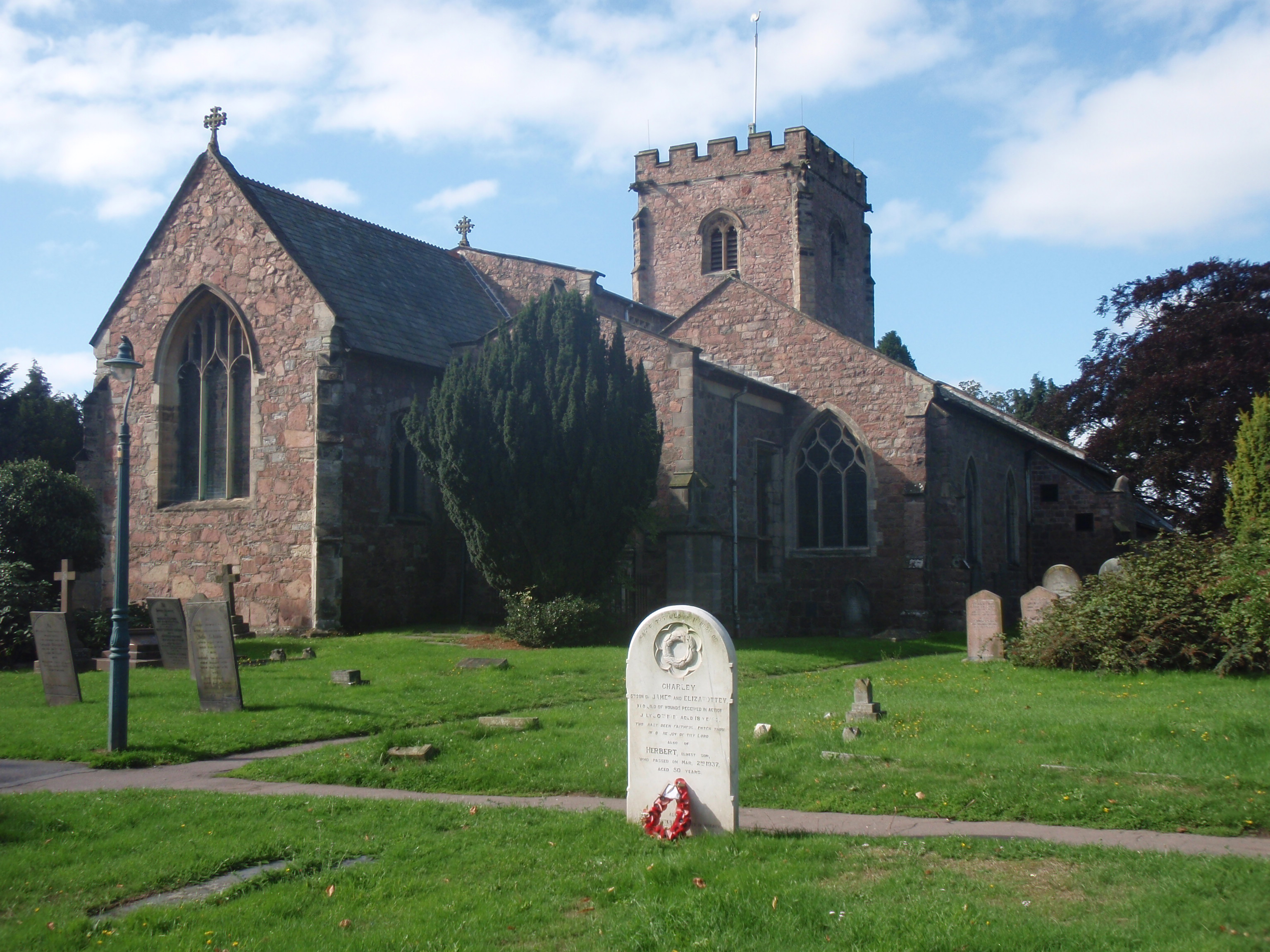 St Bartholomew's Parish Church, Quorn, Leicestershire, seen from the northeast